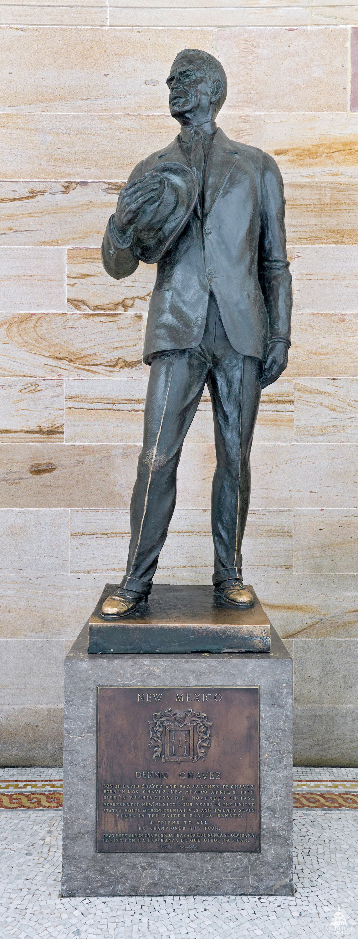 Dennis Chavez (1888-1962) New Mexico Bronze by Felix W. de Weldon Given in 1966 Senate Wing, 2nd Floor U.S. Capitol This official Architect of the Capitol photograph is being made available for educational, scholarly, news or personal purposes (not advertising or any other commercial use). When any of these images is used the photographic credit line should read “Architect of the Capitol.” These images may not be used in any way that would imply endorsement by the Architect of the Capitol or the United States Congress of a product, service or point of view. For more information visit